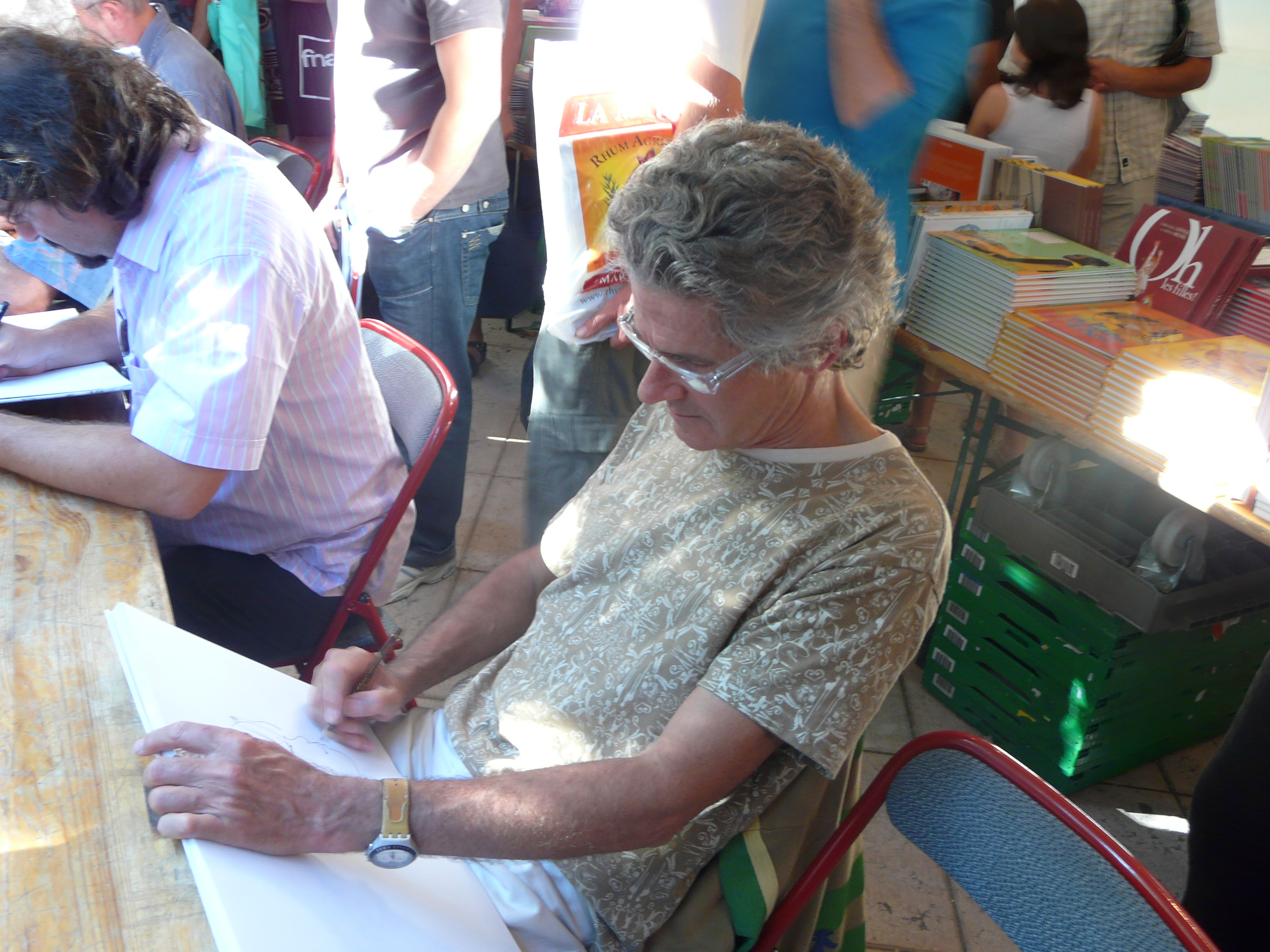 Photographs taken during the International Comic Festival of Sollies Ville, France